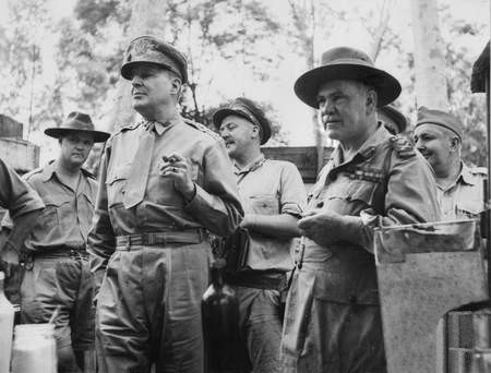 General Macarthur and General Blamey stop at a canteen during their tour of the New Guinea battle area.